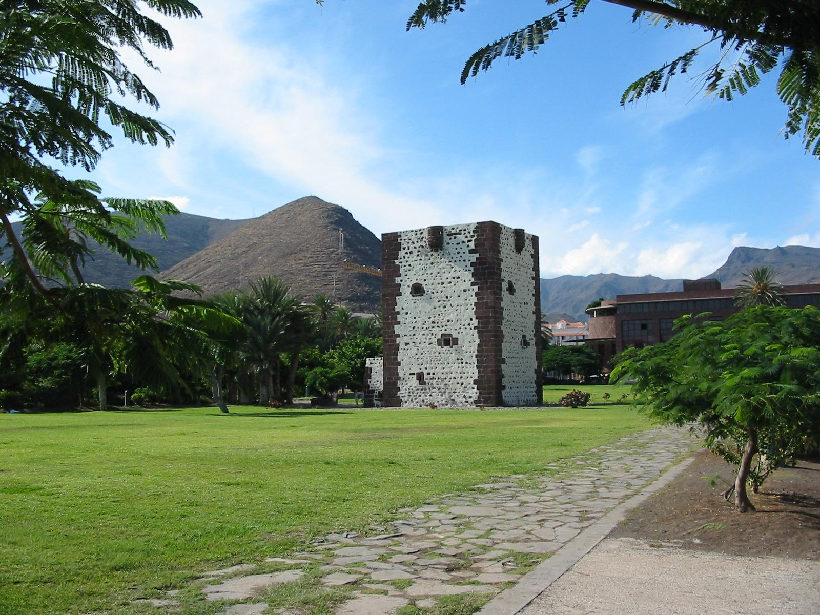 "Torre del Conde" (Earl's tower ) at San Sebastián de la Gomera, la Gomera island, Spain.